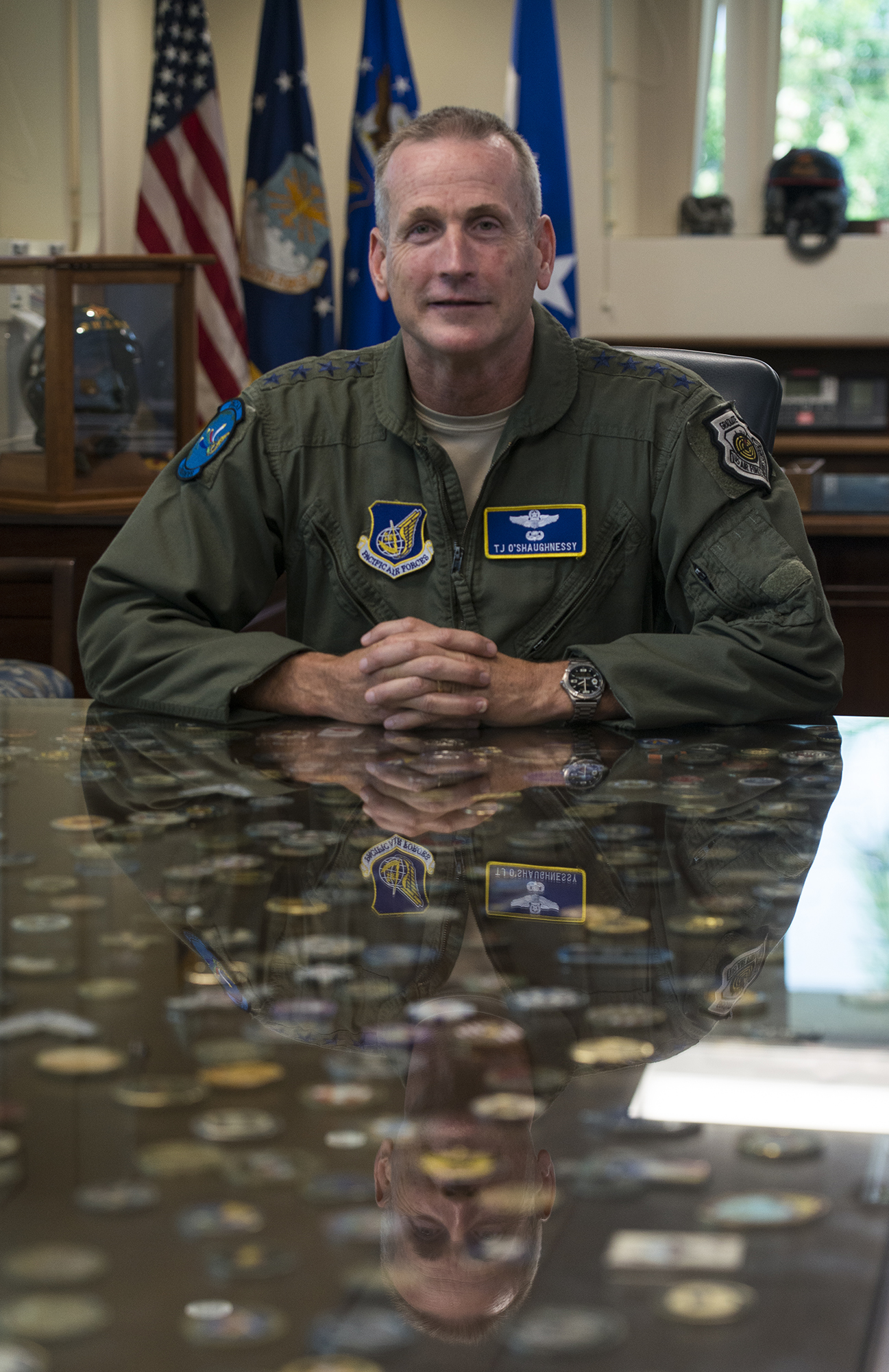 "I would say there's no doubt in my mind that this region is the most consequential region to us as a nation. When I look at the future of America, that future lies out here." Gen. Terrence J. O'Shaughnessy, Commander, Pacific Air Forces. (U.S. Air Force photo by Staff Sgt. Perry Aston)